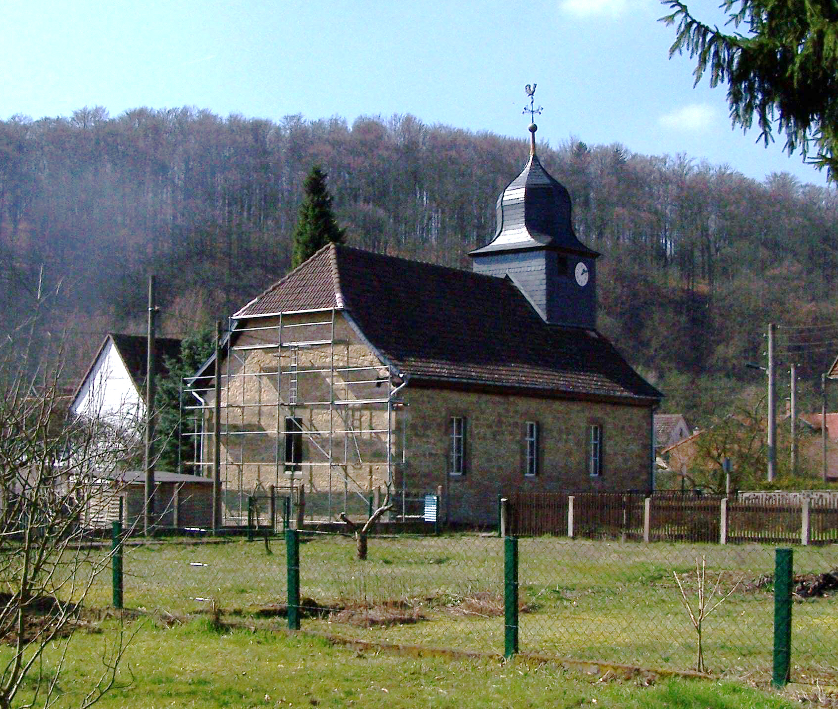 The church in Ebenshausen.